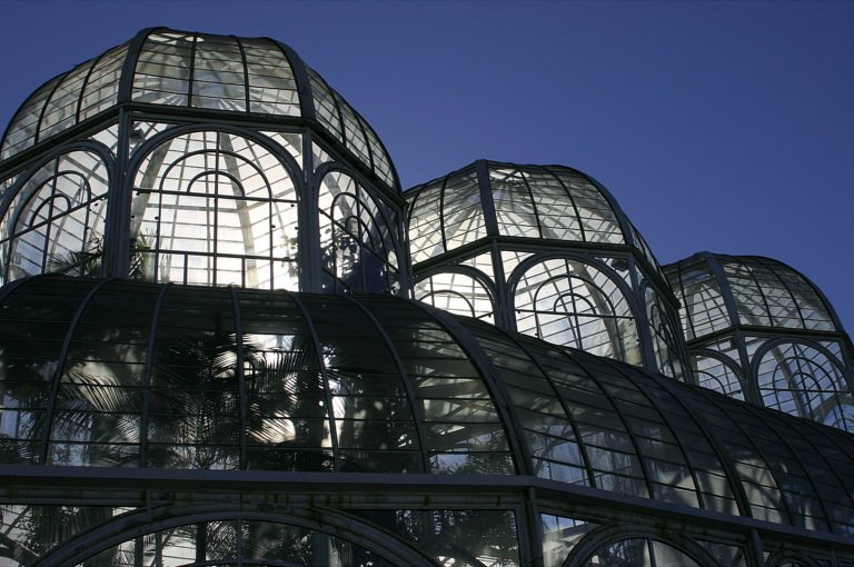 Jardim Botânico around 3:00 pm with the sun behind , Curitiba, Paraná, Brasil